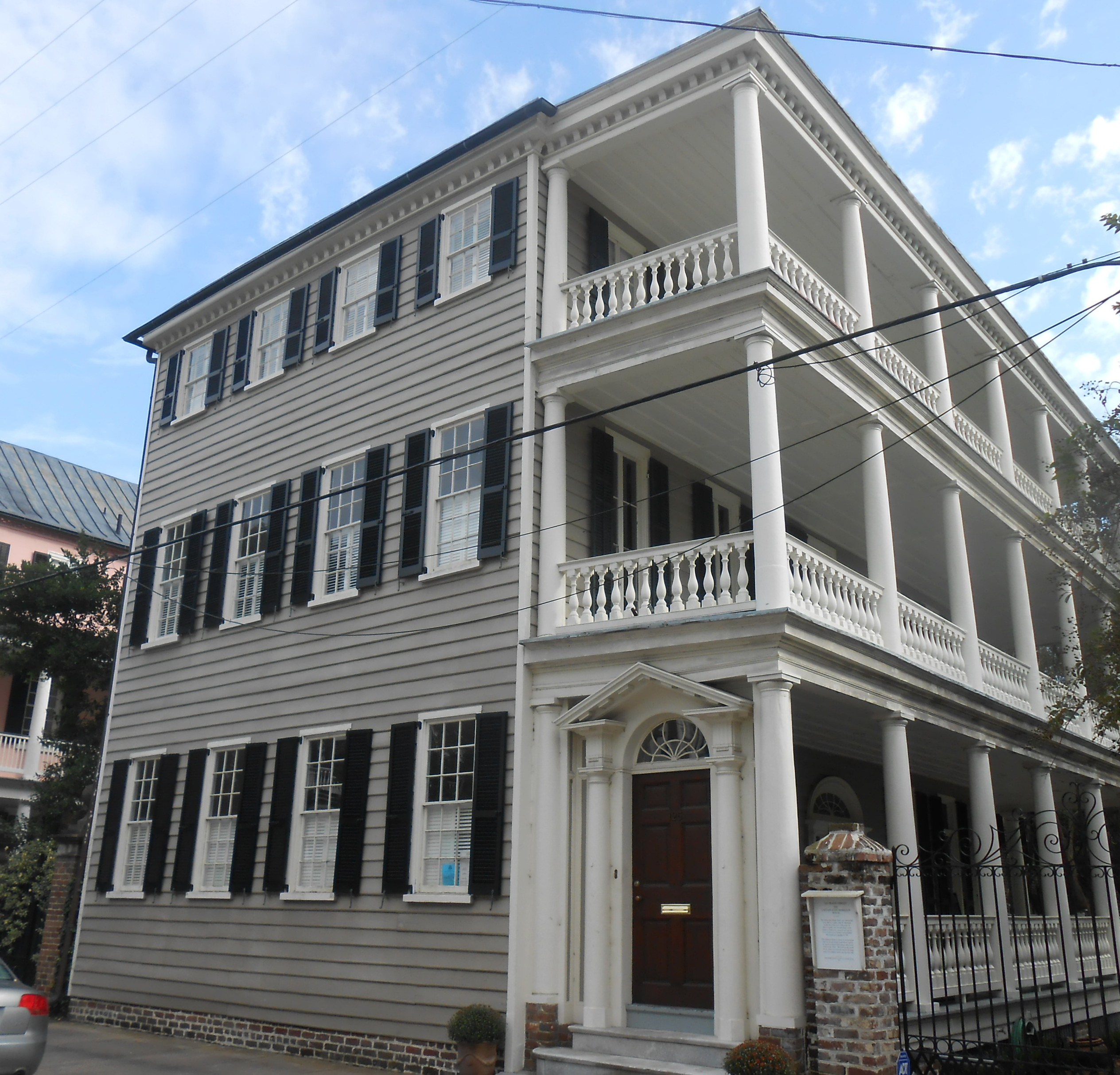 The house at 125 Tradd St. is unusual for being four bays wide.